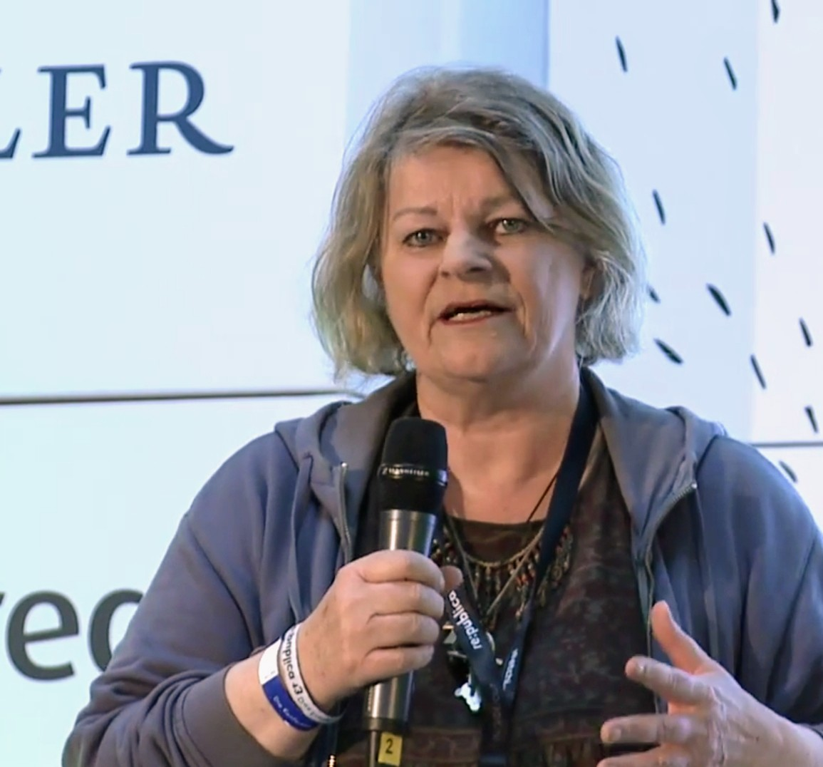 Find out more at: It's about time to connect with the arising middle classes of young African achievers. THE NEW//AFRICA is a new media brand with a social impact, sharing success stories, building new alliances, putting young professionals, startups and entrepreneurs on the international agenda. Let's forget clichés and misconceptions, still prevailing in the perception of the public: We are focussing on perspectives and progress, on chances, challenges and changes. THE NEW//AFRICA is a platform aggregating the most interesting success stories from all over the continent, introducing exceptional talent, knowhow and visions. It's a thermometer of the international bloggers' opinion. It's an event scheme and an annual yearbook on the life and work of the global thinking young African professionals. This session is discussing a fresh viewpoint on the African economy, presenting new forms of co-operation and networking. Presented by THE NEW//AFRICA-founder Beate Wedekind, renowned German journalist, publisher and TV-person, Preethi Mariappan, Head of Digital of TBWA Germany, and Julian Tadesse, MA in African Studies and Political Science. Other participant... Beate Wedekind Preethi Mariappan Julian Tadesse Creative Commons Attribution-ShareAlike 3.0 Germany (CC BY-SA 3.0 DE)